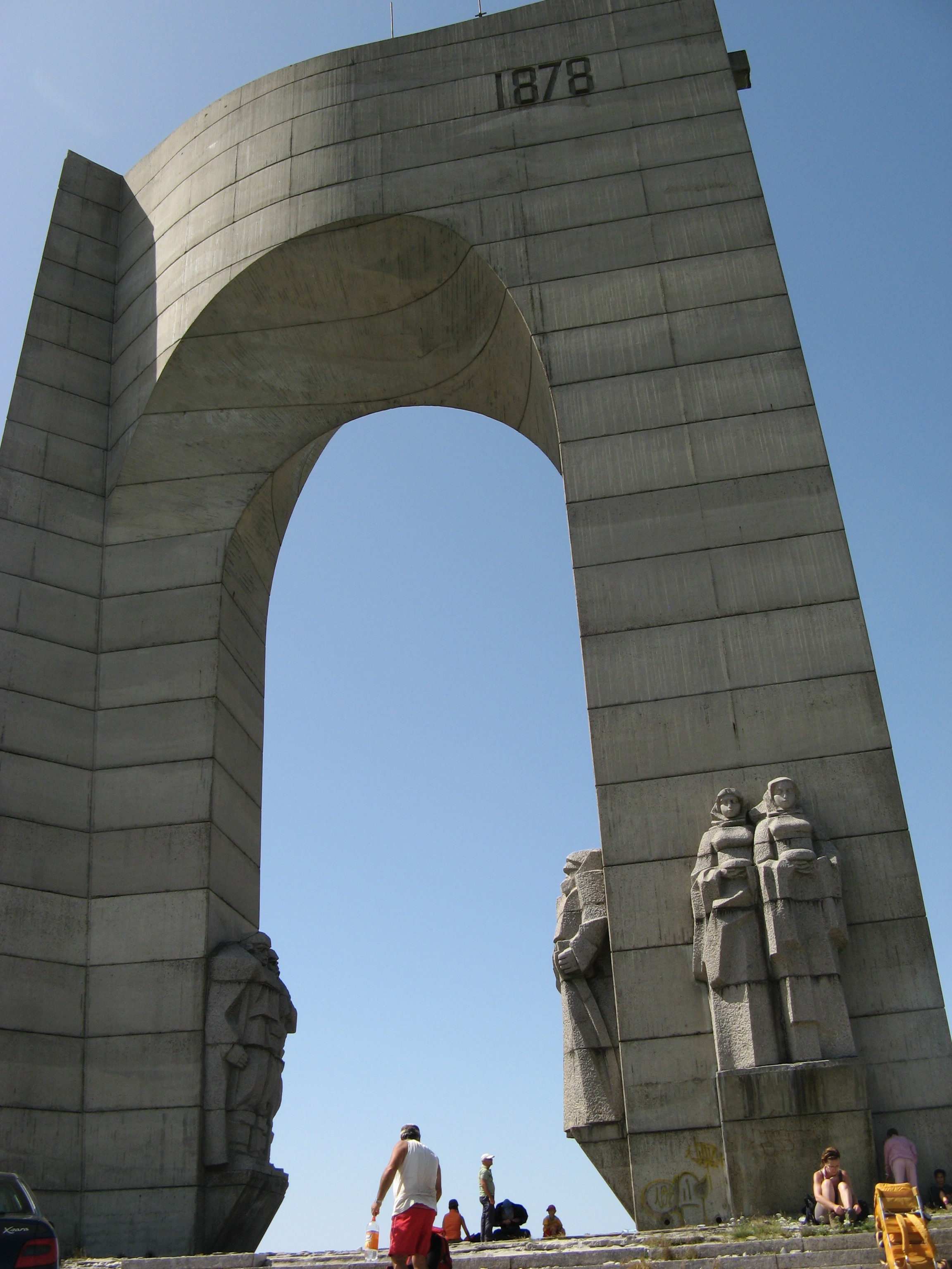 Beklemeto memorial in the Stara planina mountains.